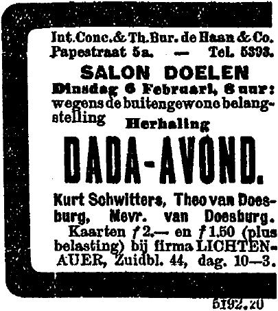 Advertisement Dada Avond, Rotterdam. From Nieuwe Rotterdamsche Courant. 5 February 1923 Avondblad B, p. 4.